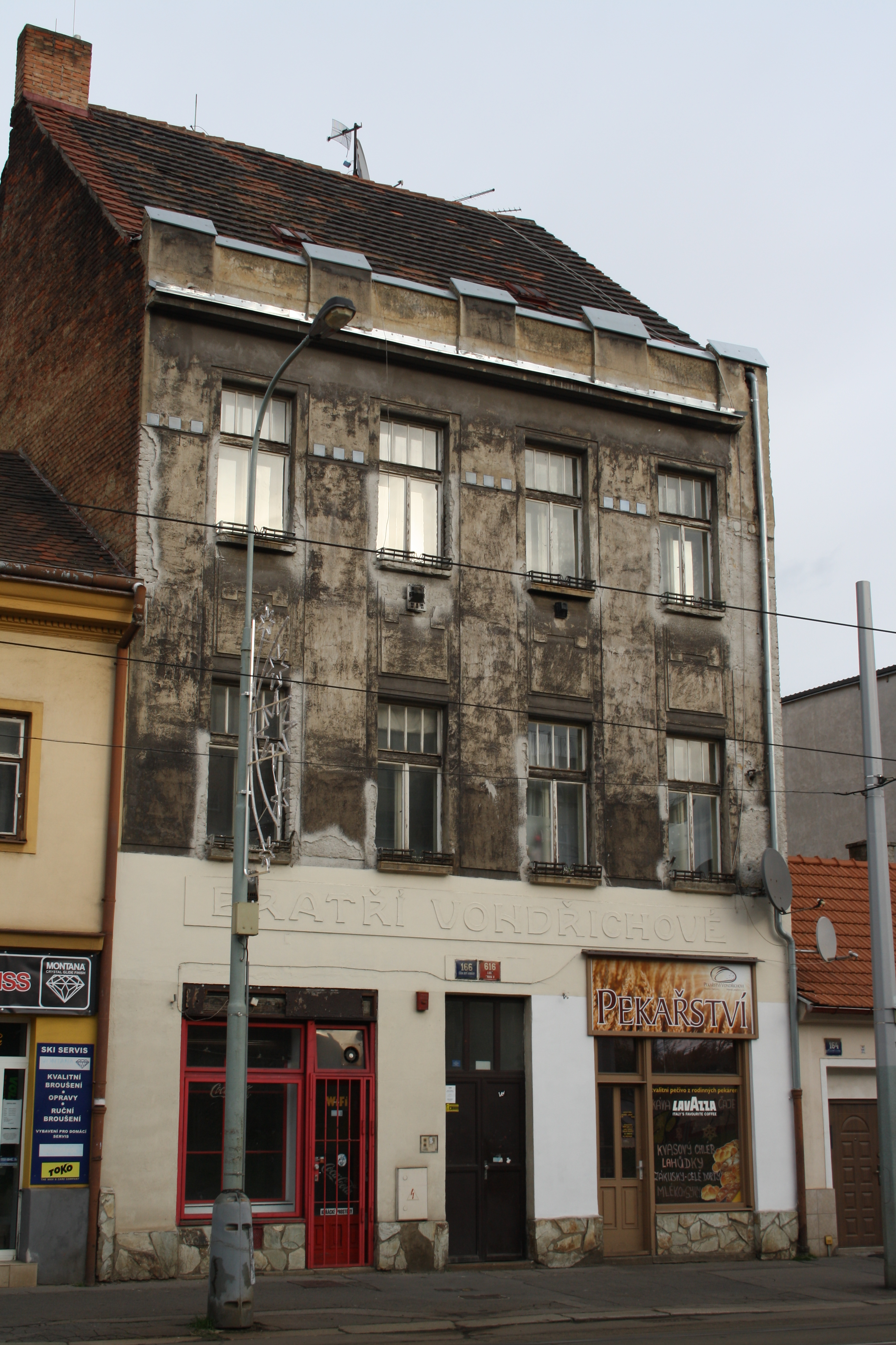 Zenklova 616/166, Prague, Czech Republic